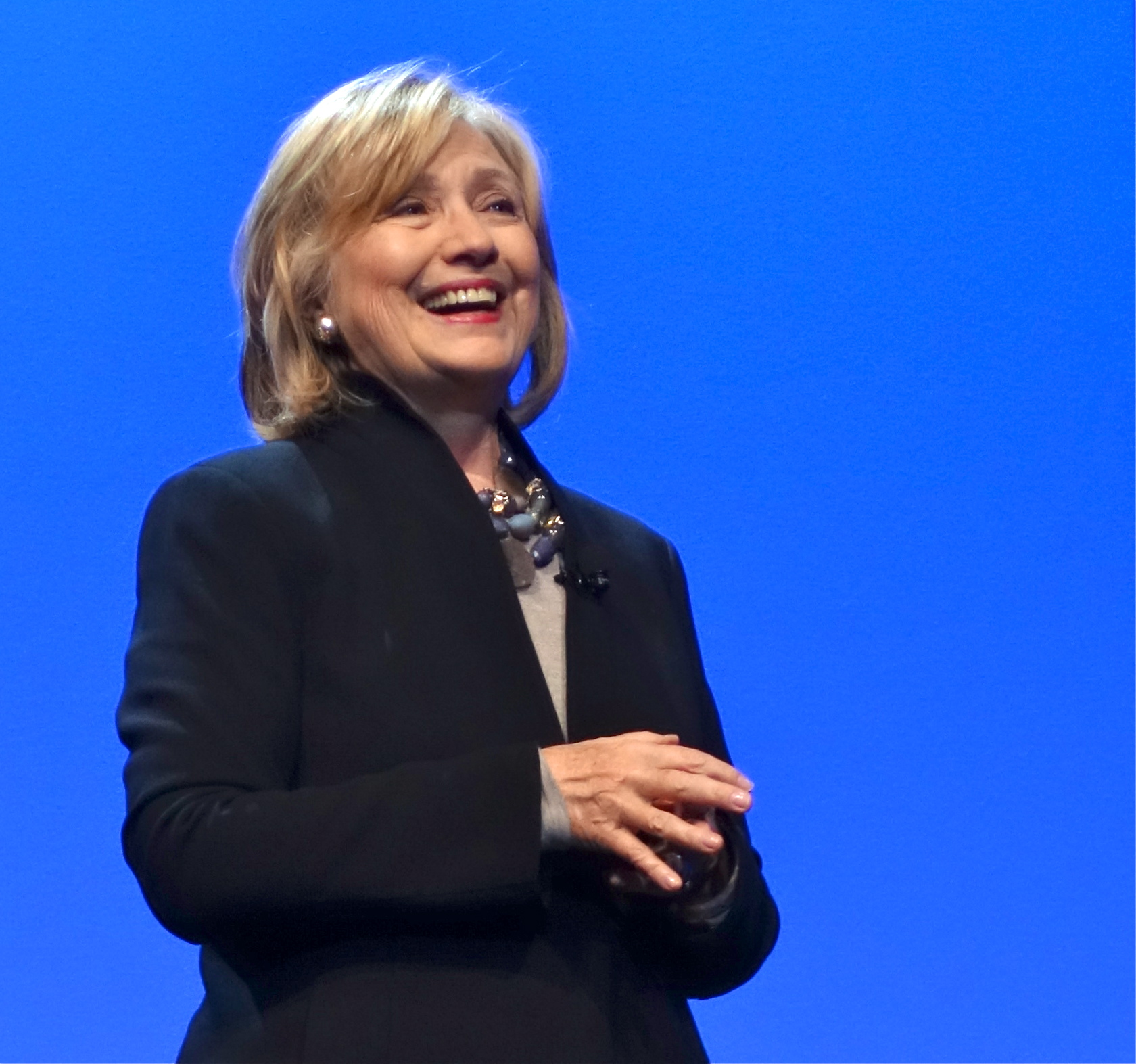 Hillary Clinton delivered a keynote address at Dreamforce '14, the annual user conference for Salesforce, on Oct. 14, 2014. is a cloud computing company headquartered in San Francisco, California.